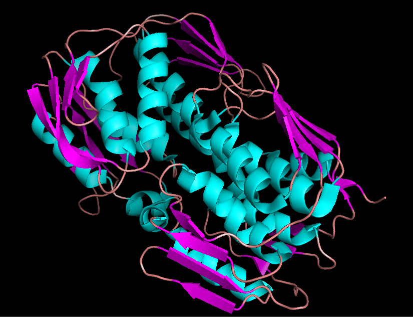 Ribbon diagram of EPSP synthase